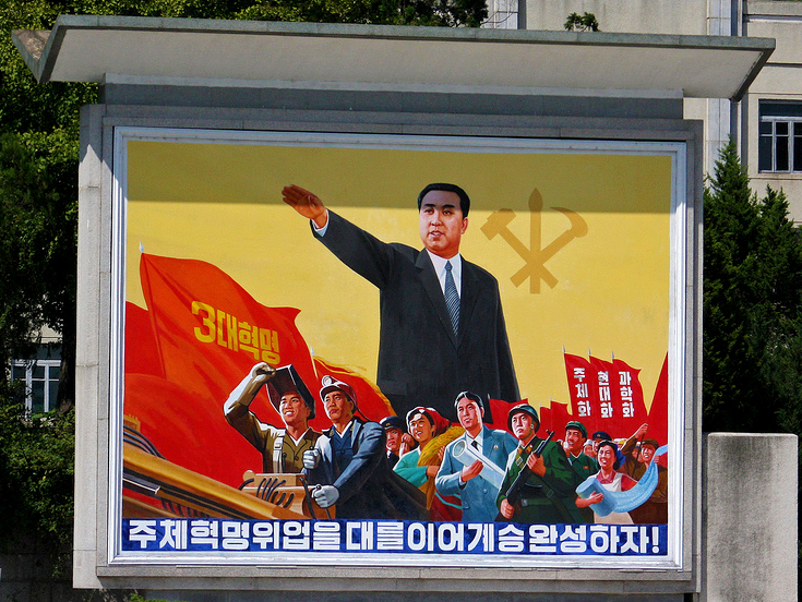 Political propaganda mural depicting Pyongyang Kim Il Sung